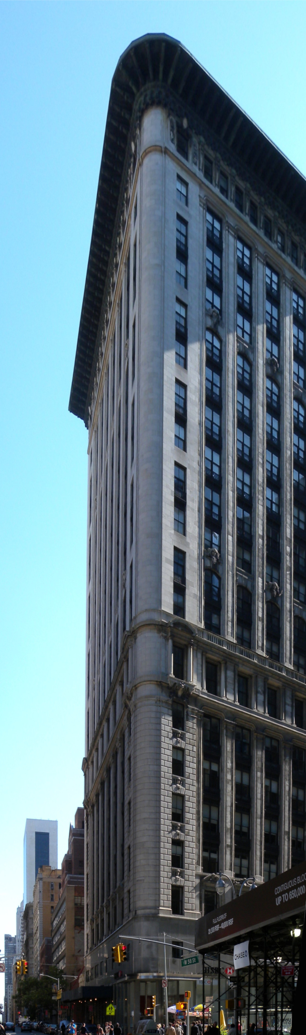 Looking east from 58th St across Broadway at former US Rubber Building, later Simon & Schuster, now many different tenants, on a sunny midday.